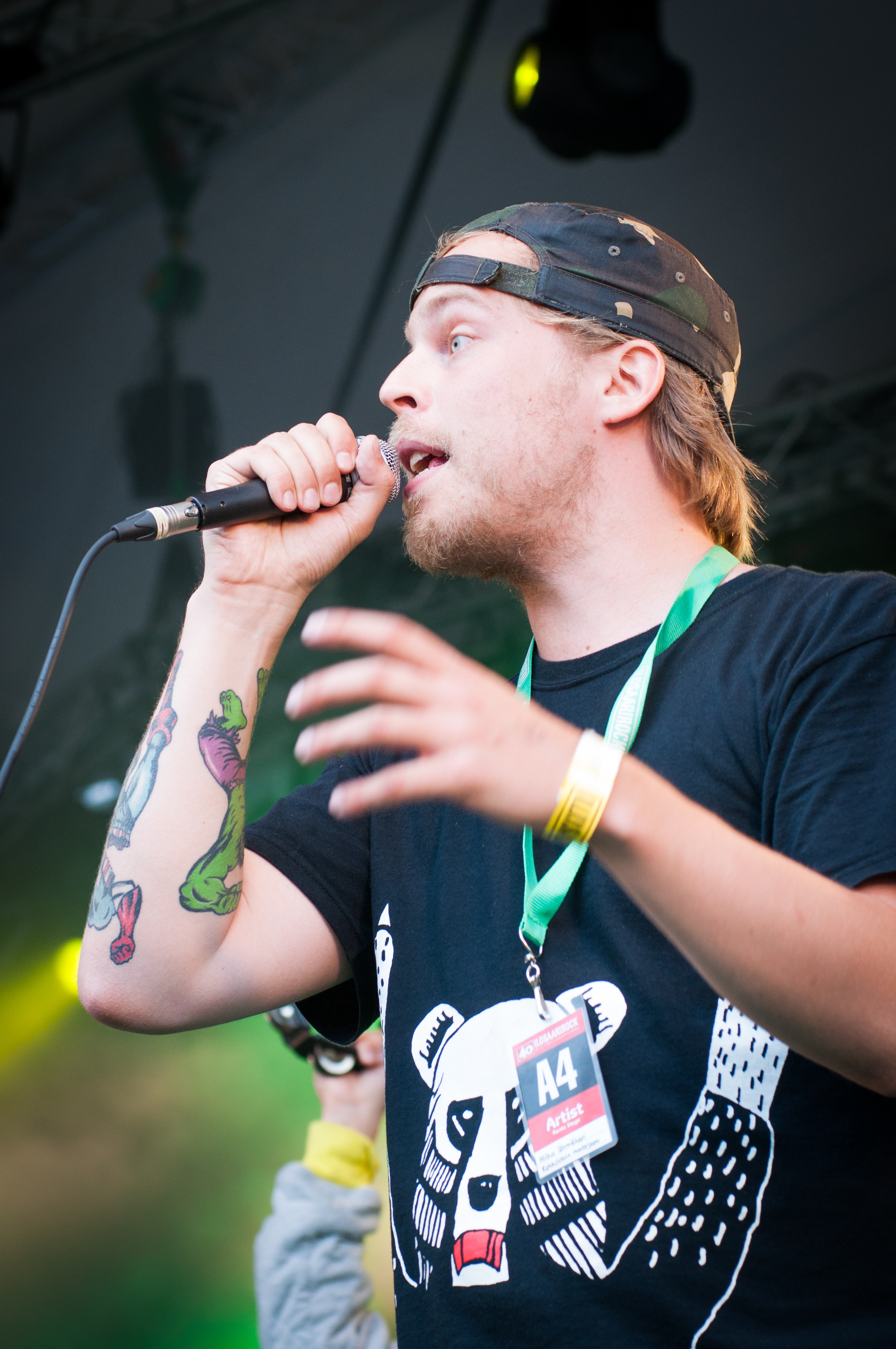 Finnish hip hop artist Miika "Särre" Särmäkari performing as a part of Rokkilokin Rentoshow at the 2011 Ilosaarirock festival in Joensuu, Finland.